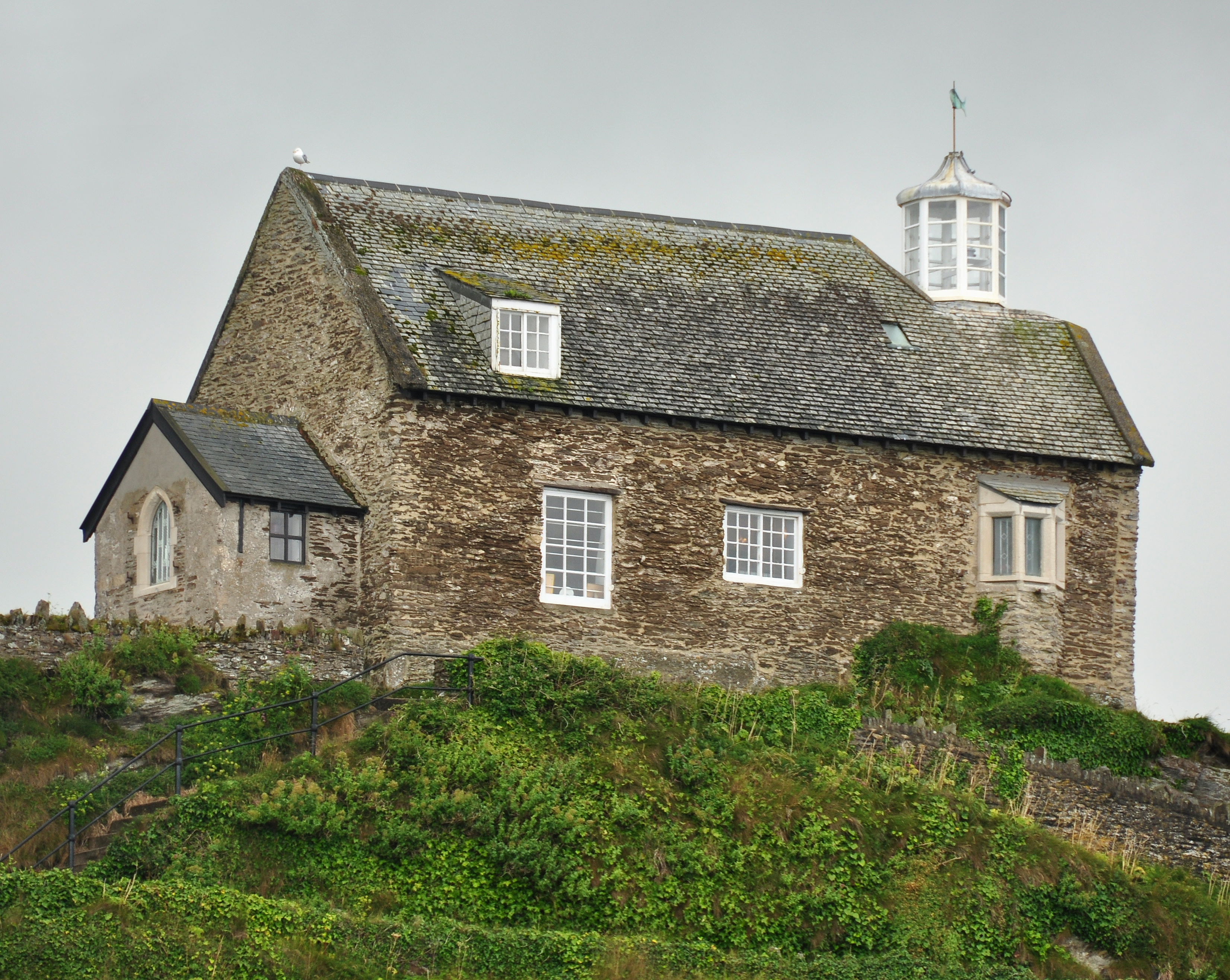 St Nicholas Chapel, on Lantern Hill, in Ilfracombe, Devon.